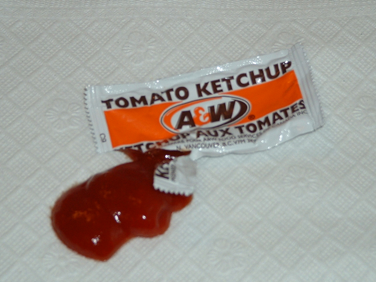 Ketchup packet with ketchup on napkin. Taken by User:CryptoDerk